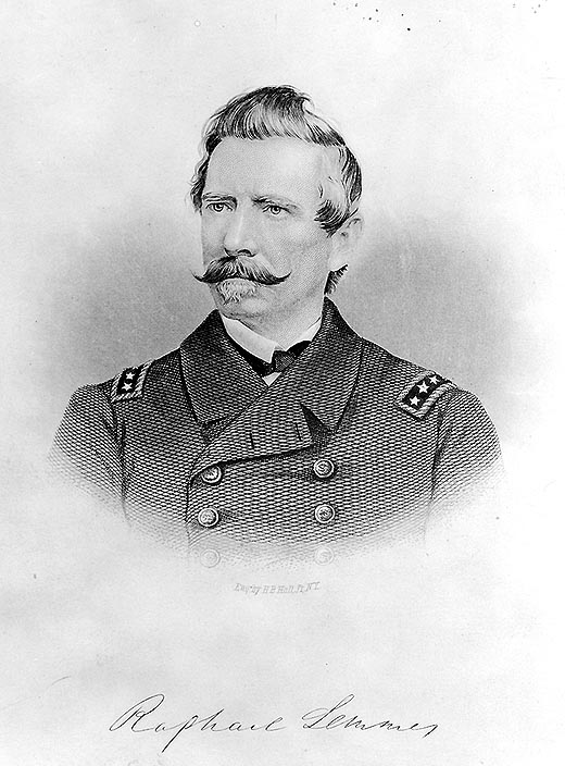 Removed caption read: Photo # NH 45785 Rear Admiral Raphael Semmes, CSN; ADM. R.SEMMES. Note: Engraving by Henry Bryan Hall, Jr., New York, published in Semmes' book, Memoirs of Services Afloat. The print features a facsimile of Semmes' signature. U.S. Naval History and Heritage Command Photograph.